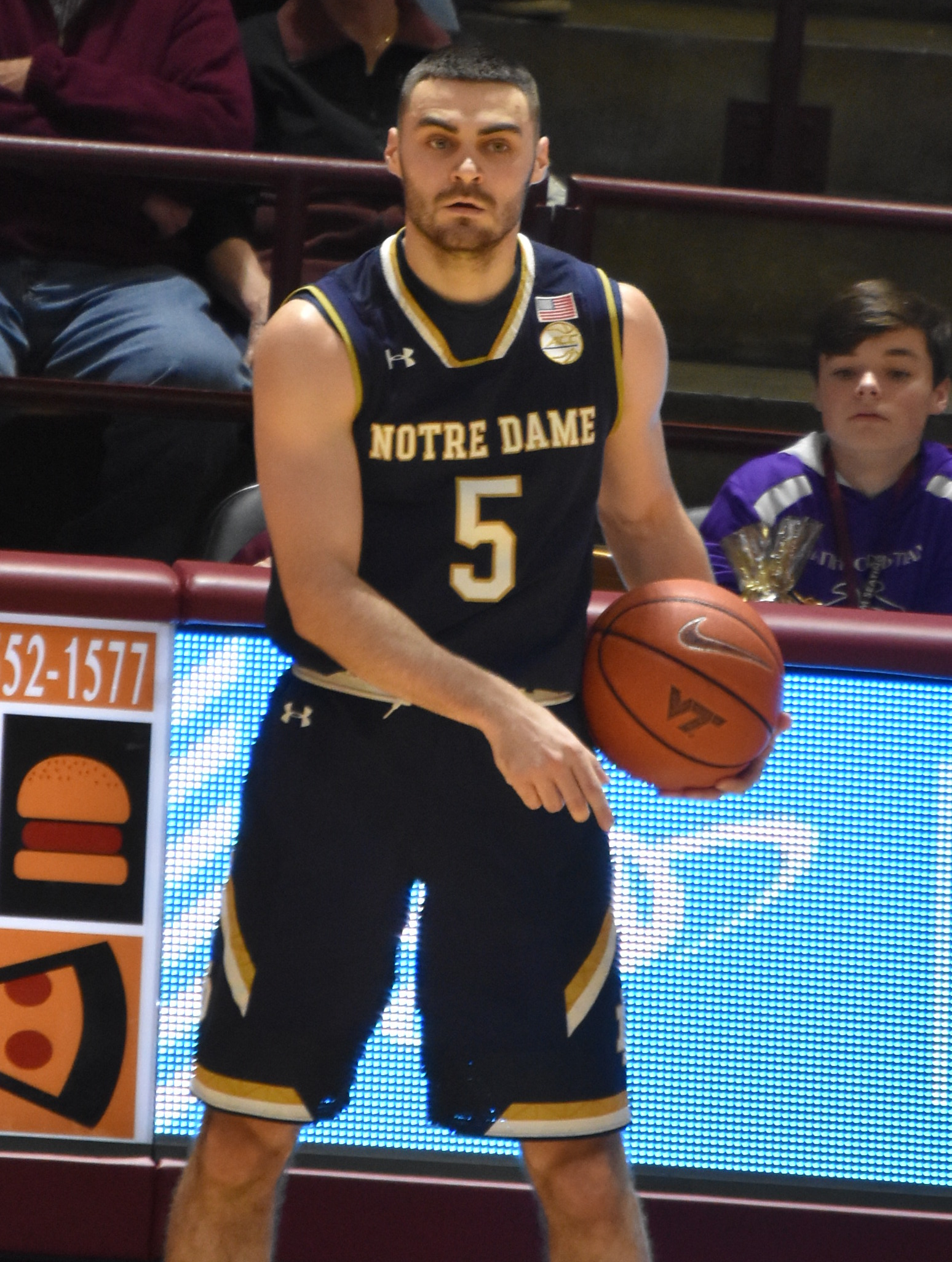 Matt Farrell holds the ball for the Irish